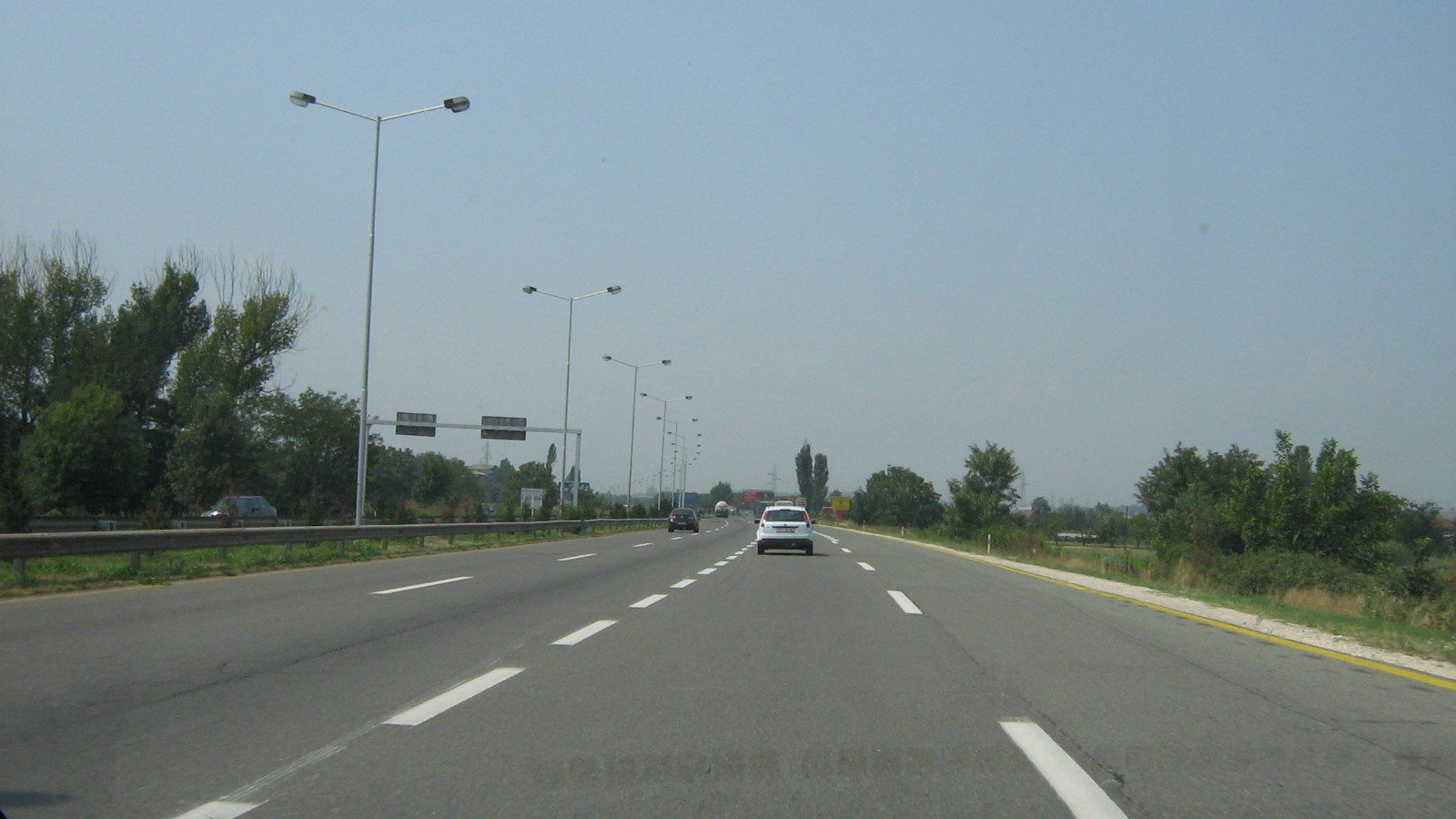 Macedonian motorway M-3 near Hipodrom